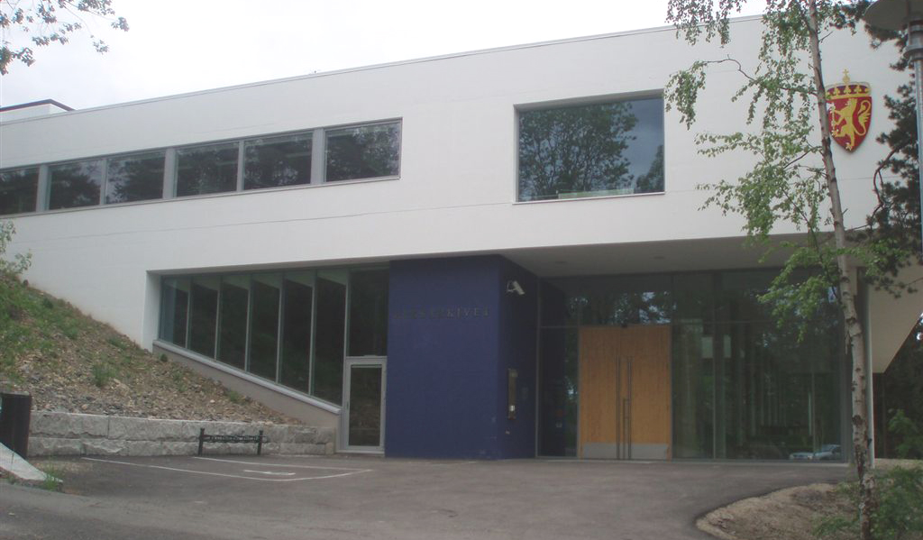 Norways national archive are Norways bureau for archivation of goverment documentation.